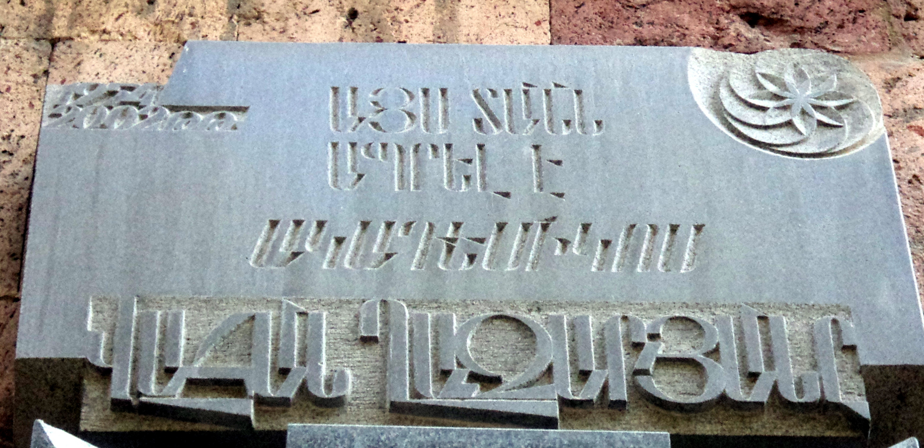 Վահան Ղազարյանին նվիրված հուշատախտակ Երևանում